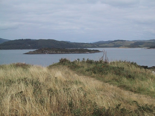 Rough Island from Rockcliffe